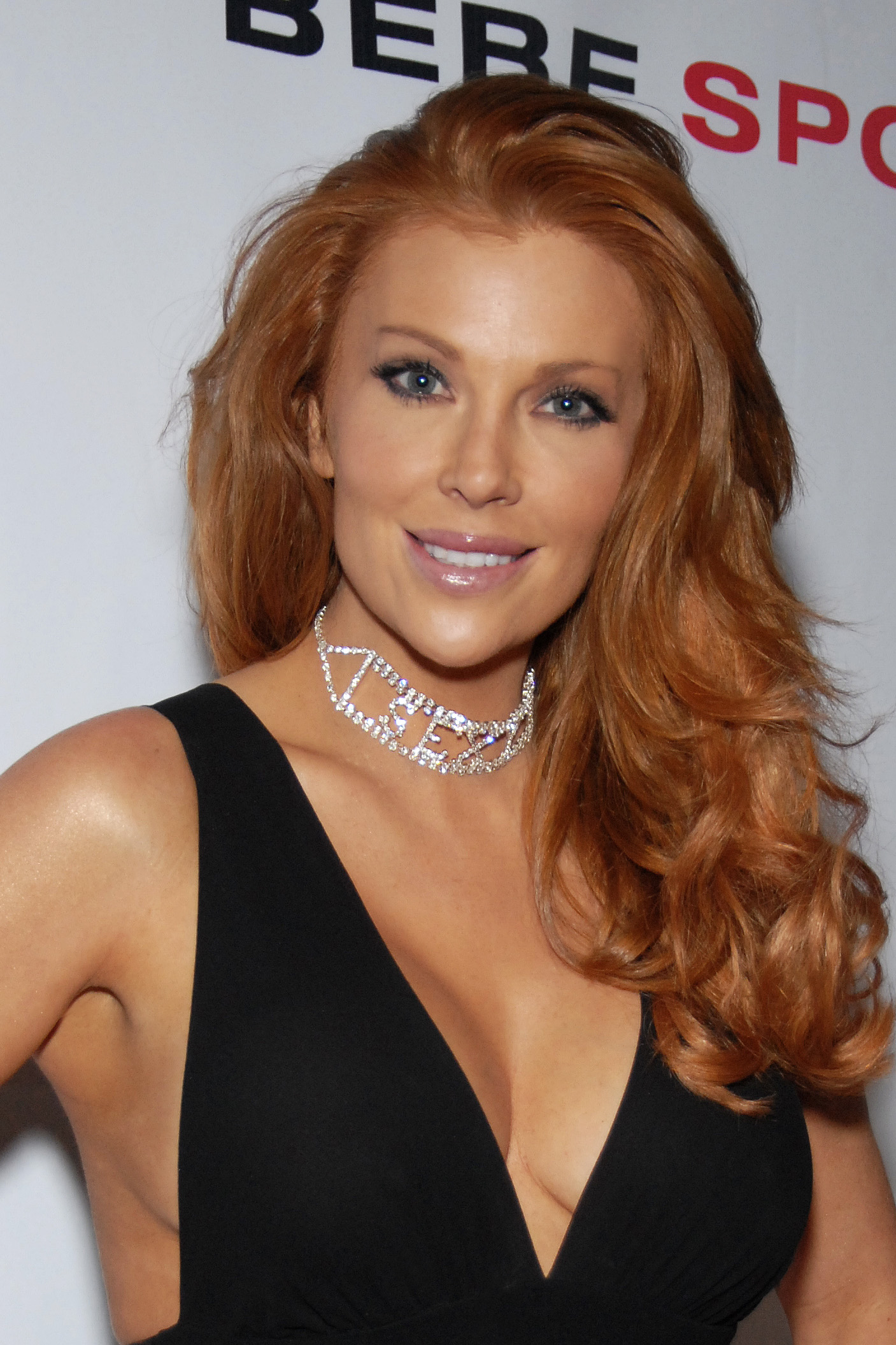 Angelica Bridges hosting a New Years Eve Party - Hollywood, CA -N.Y.E.